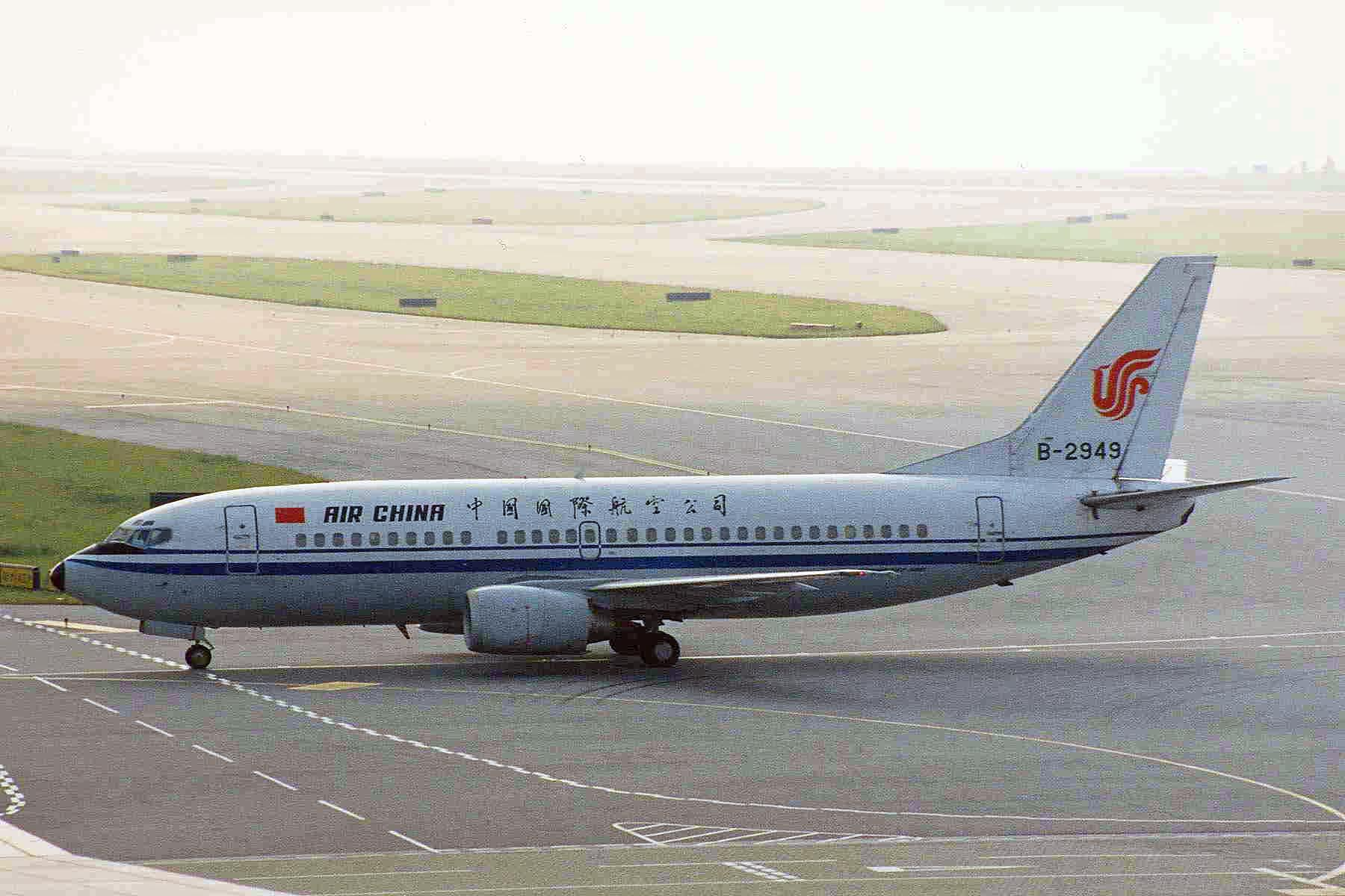 This 737 had been hijacked to Taiwan a year ago.